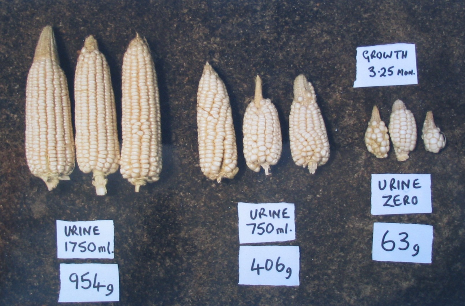 Early trials. Photo by: Peter Morgan, Harare.2002 - 2003 season